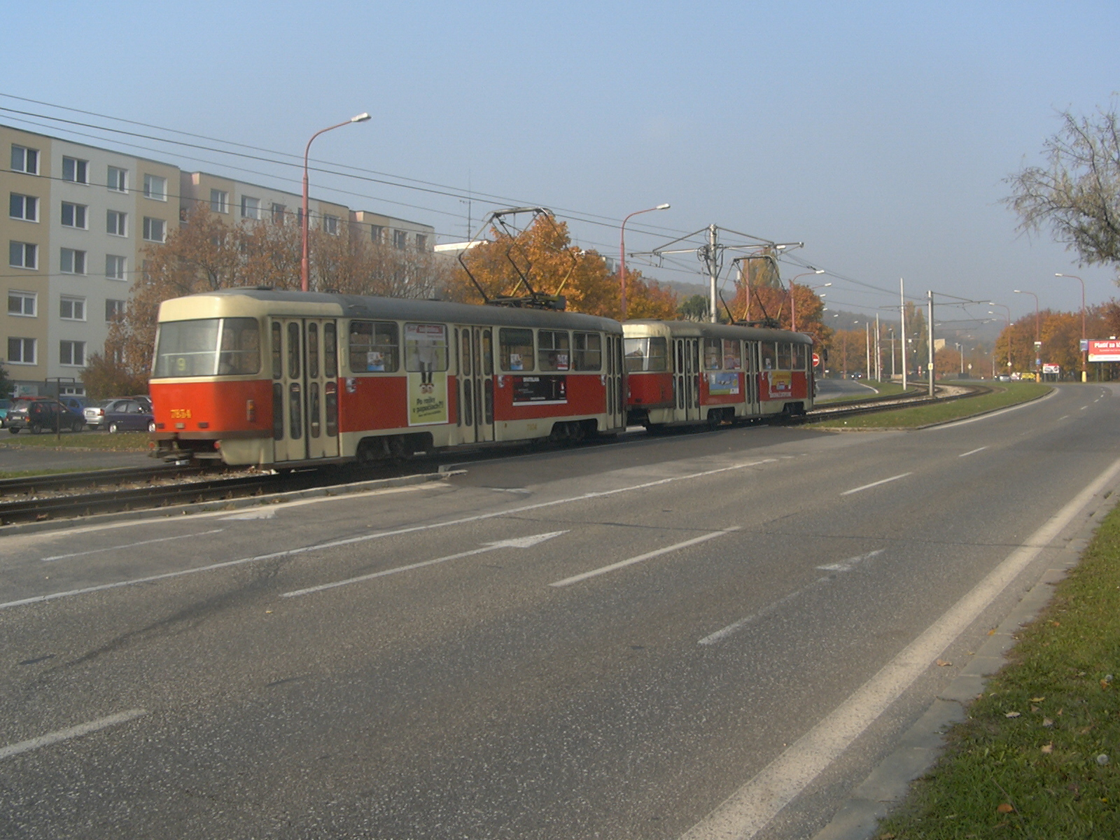 Tram at Bratislava, Slovakia